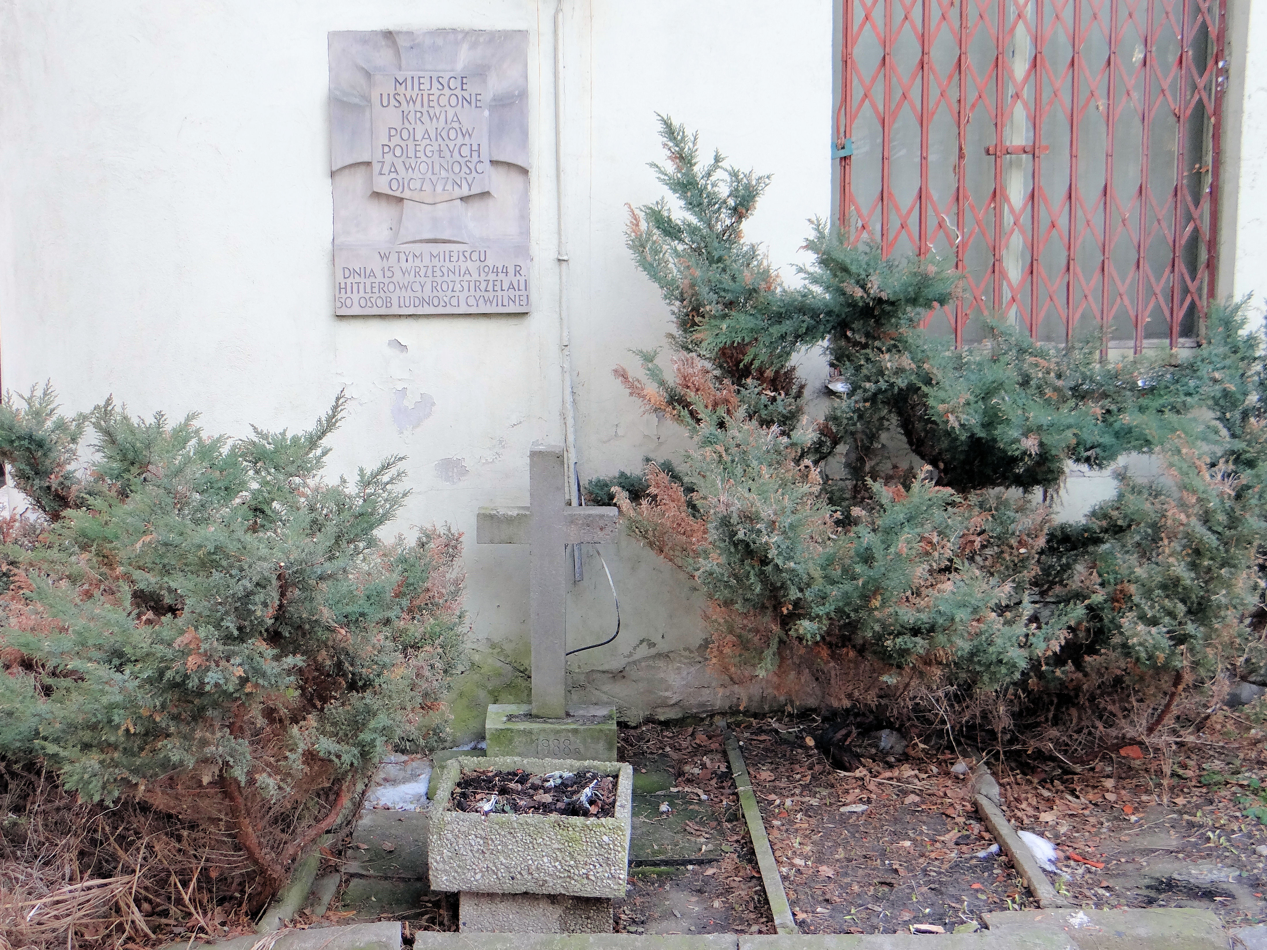 Place of National Memory at the corner of streets 19 Barszczewska and 4 Morawska in Warsaw